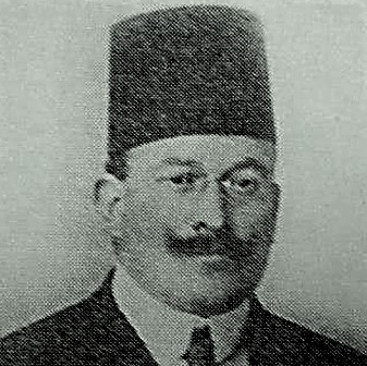 This image may be used by anyone for educational purposes.